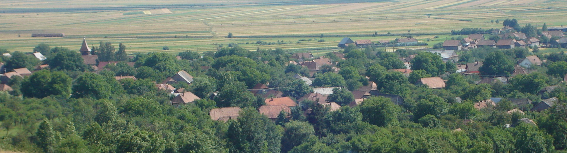 Mereni, covasna County, Transylvania, Romania